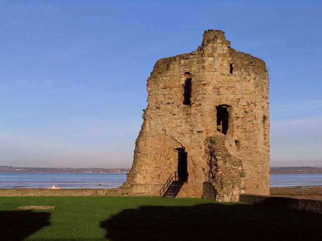 Part of Flint/ Fflint Castle This castle was "not substantially completed until 1284". It was built for the English king Edward I, and has had an eventful life - (same link as on another geograph). In the background is the Dee estuary and the Wirral Peninsula.